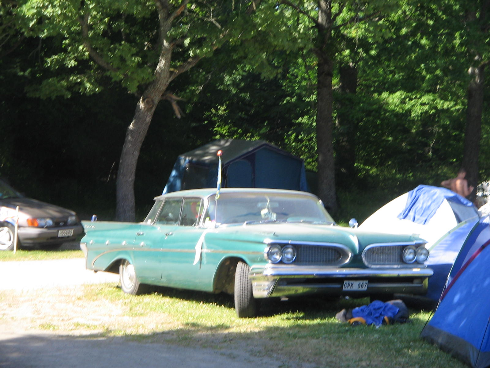 A 1959 Pontiac Starchief 4DHT.